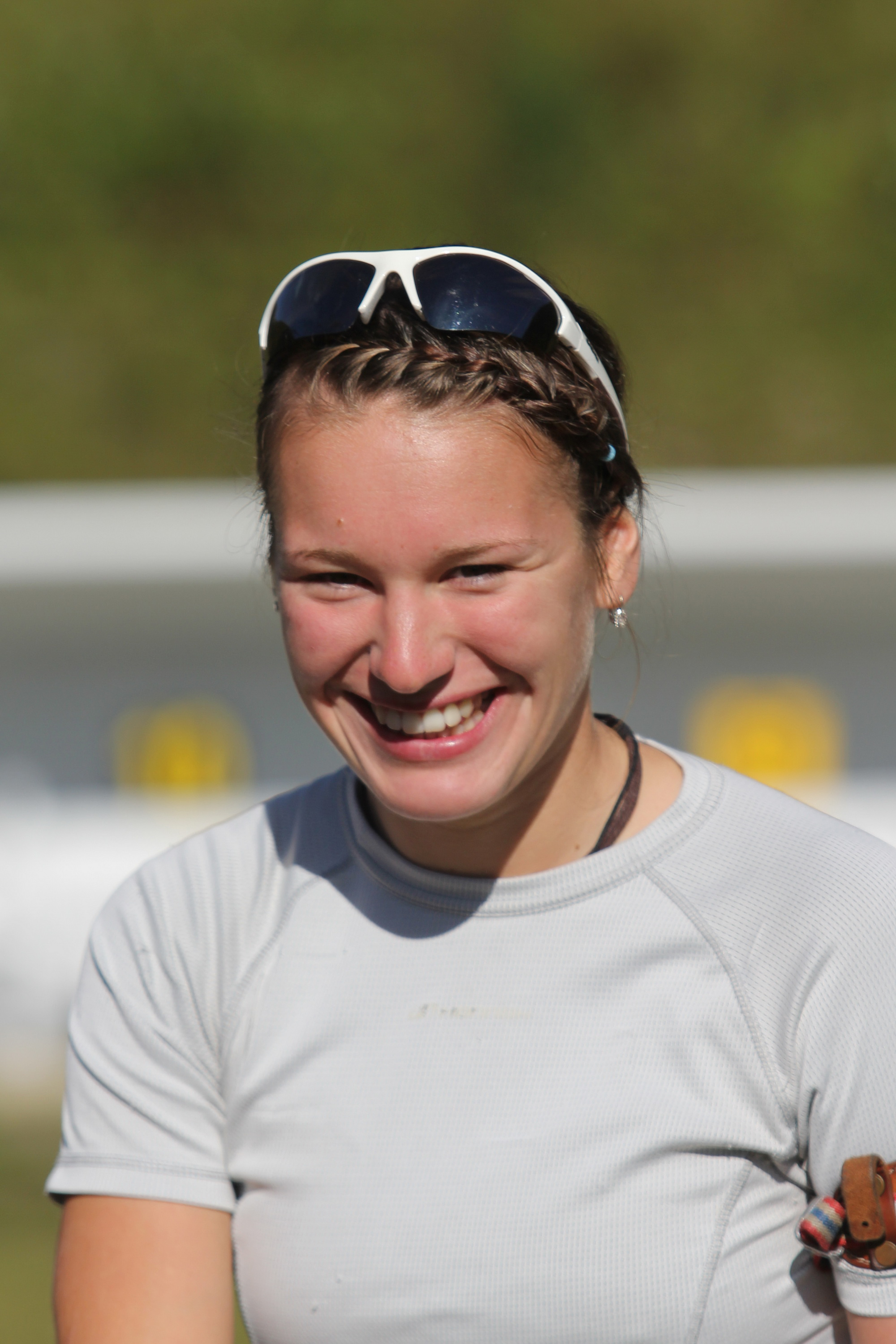 Paulina Fialková at summer training in Obertilliach